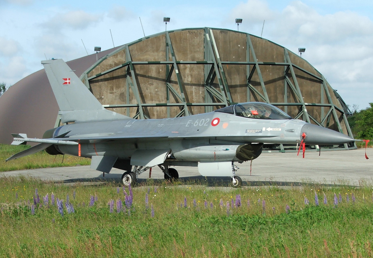 F-16 Fighting Falcon from the Royal Danish Air Force. Picture taken at Karup Air Force Base in Denmark. 18th of June 2005. /PAJ